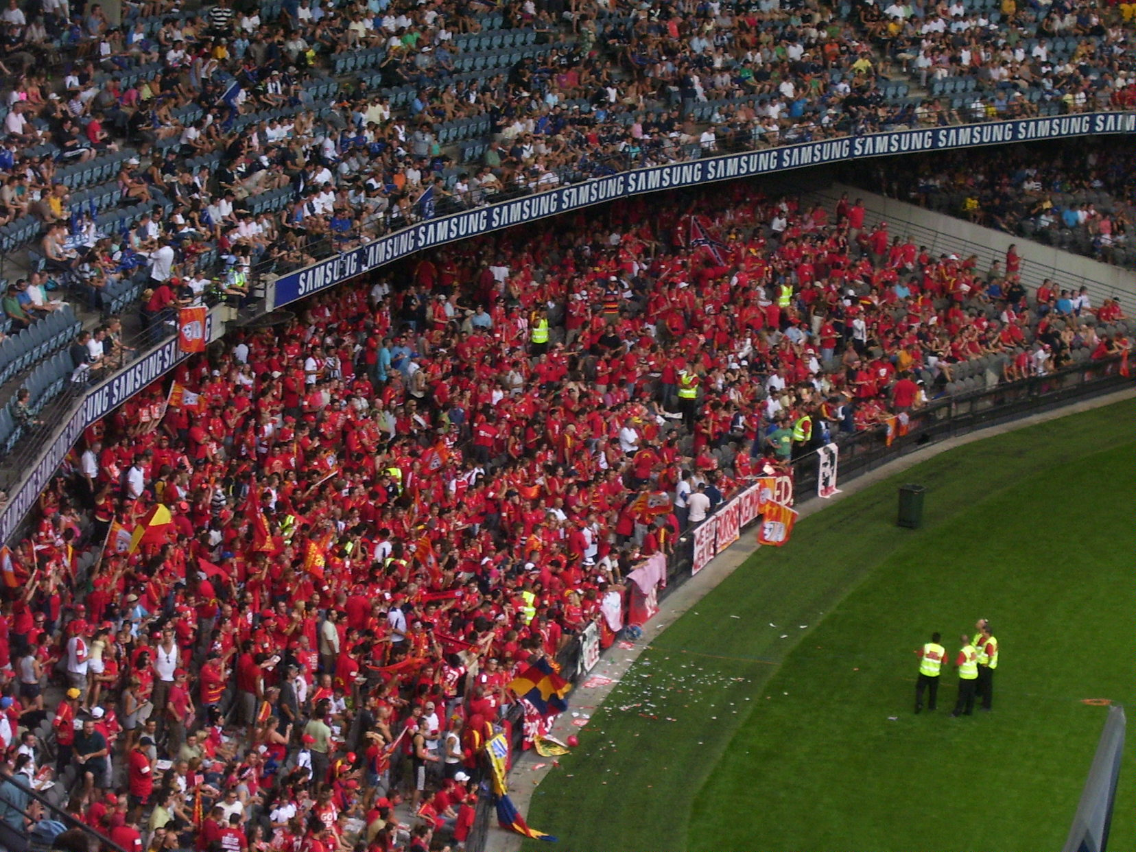 My God! And this is in Melbourne!! They came out in force.